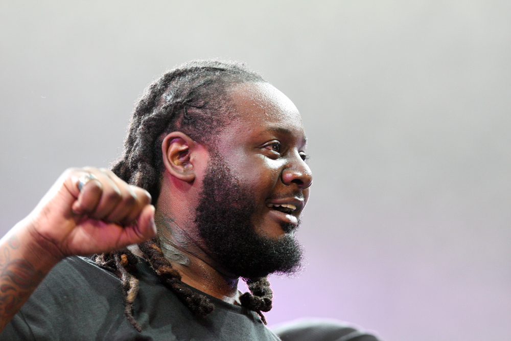 t pain performs supafest sydney australia